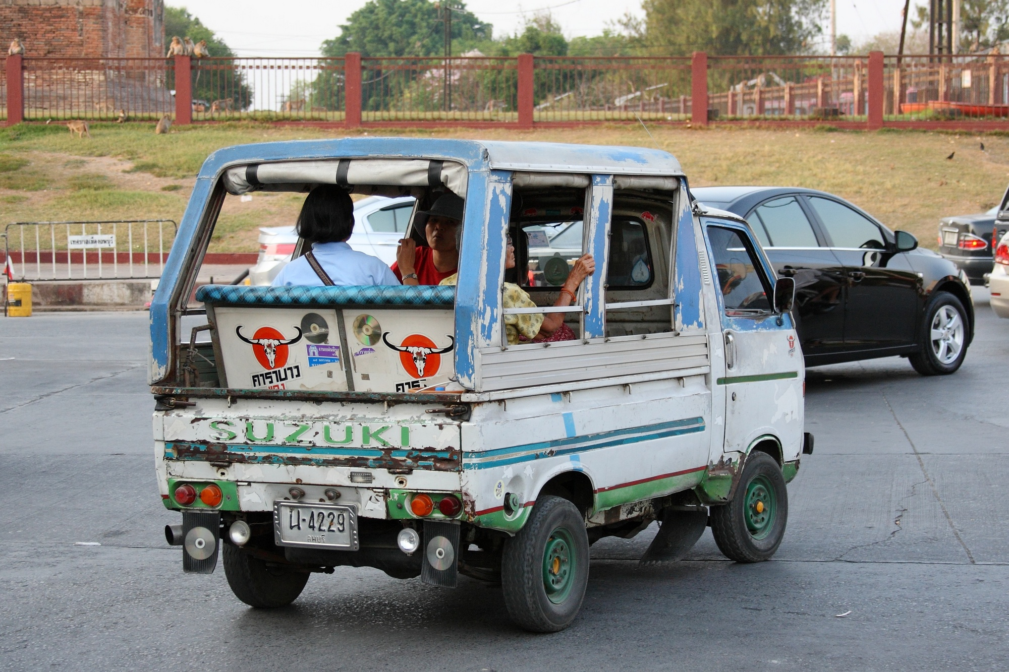 Truck taxi in Lopburi, Thailand